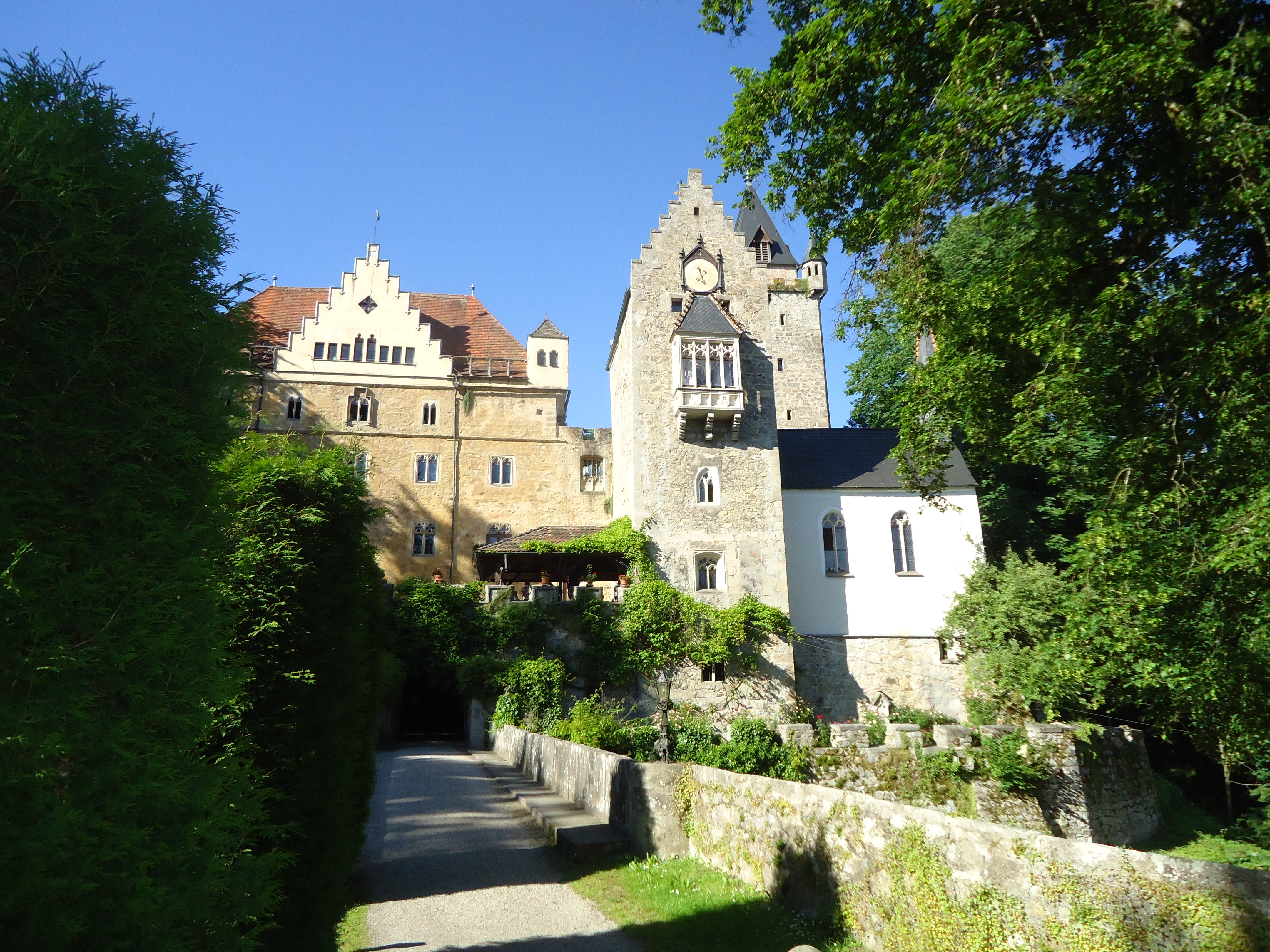 Schloss Egg